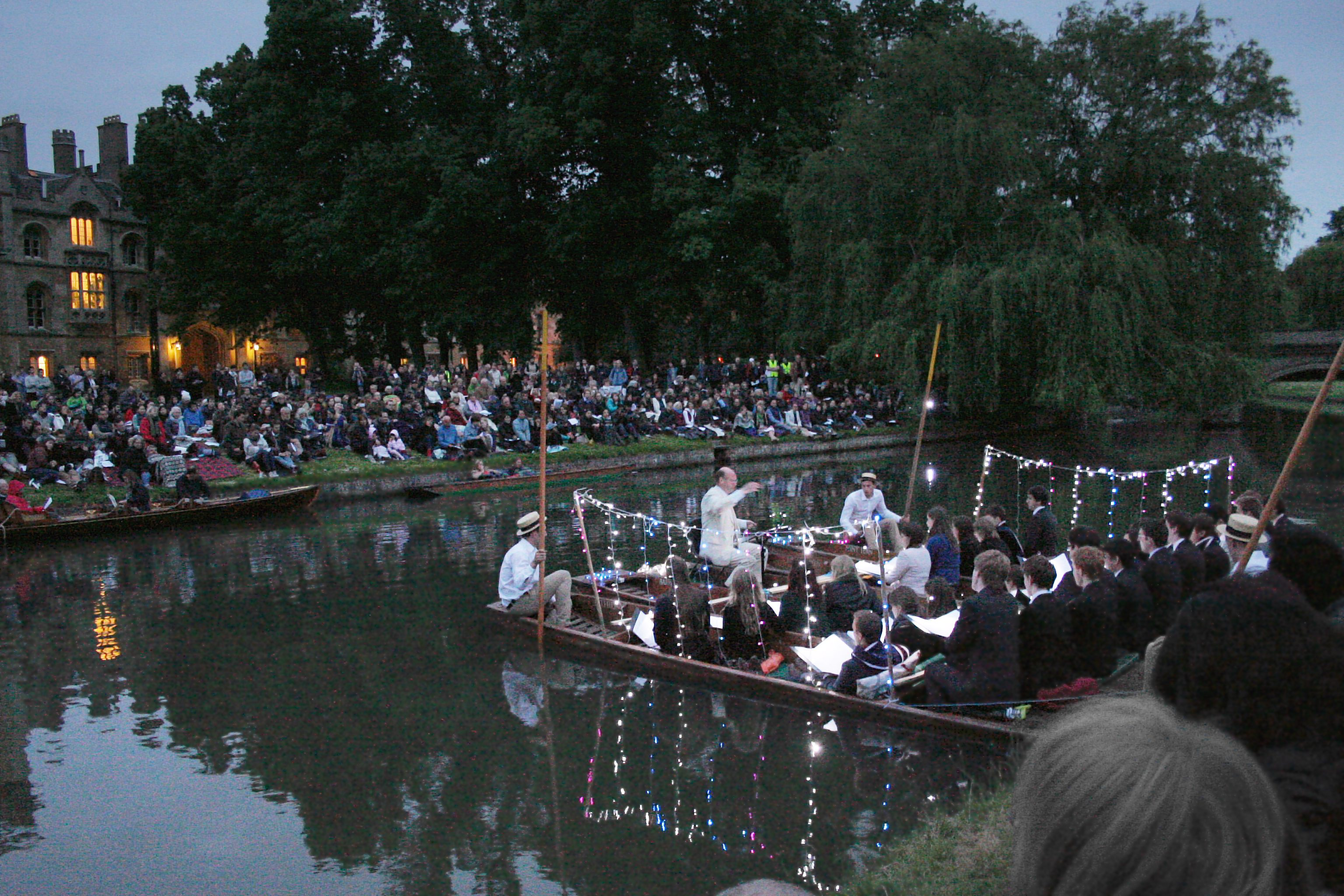 Cambridge University Trinity College Choir (conducted by Trinity College's Director of Music, Stephen Layton) Singing on the River Cam on 9 June 2013.